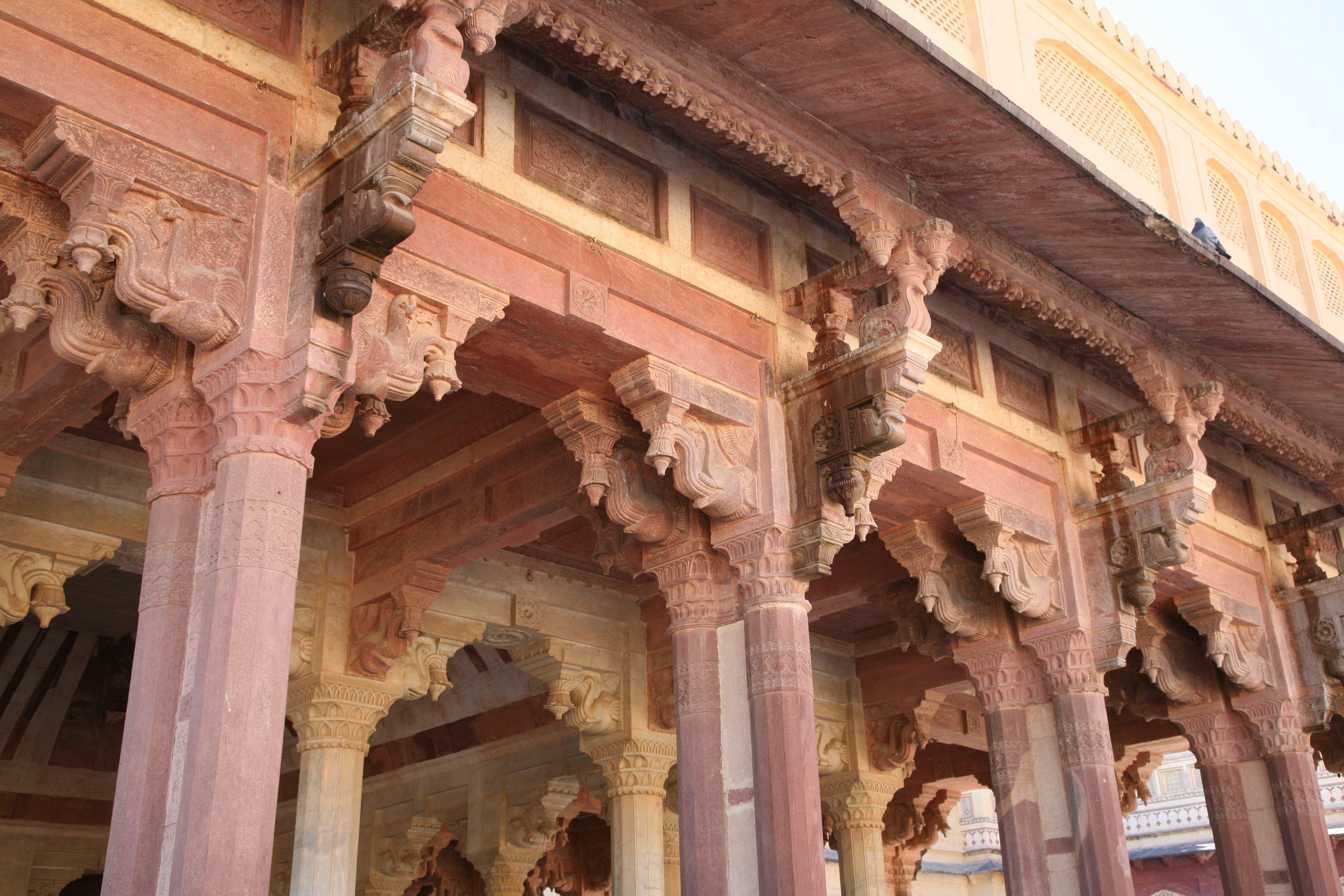 Amber Fort, near Jaipur. The Diwan-i-Aam (public audience hall).